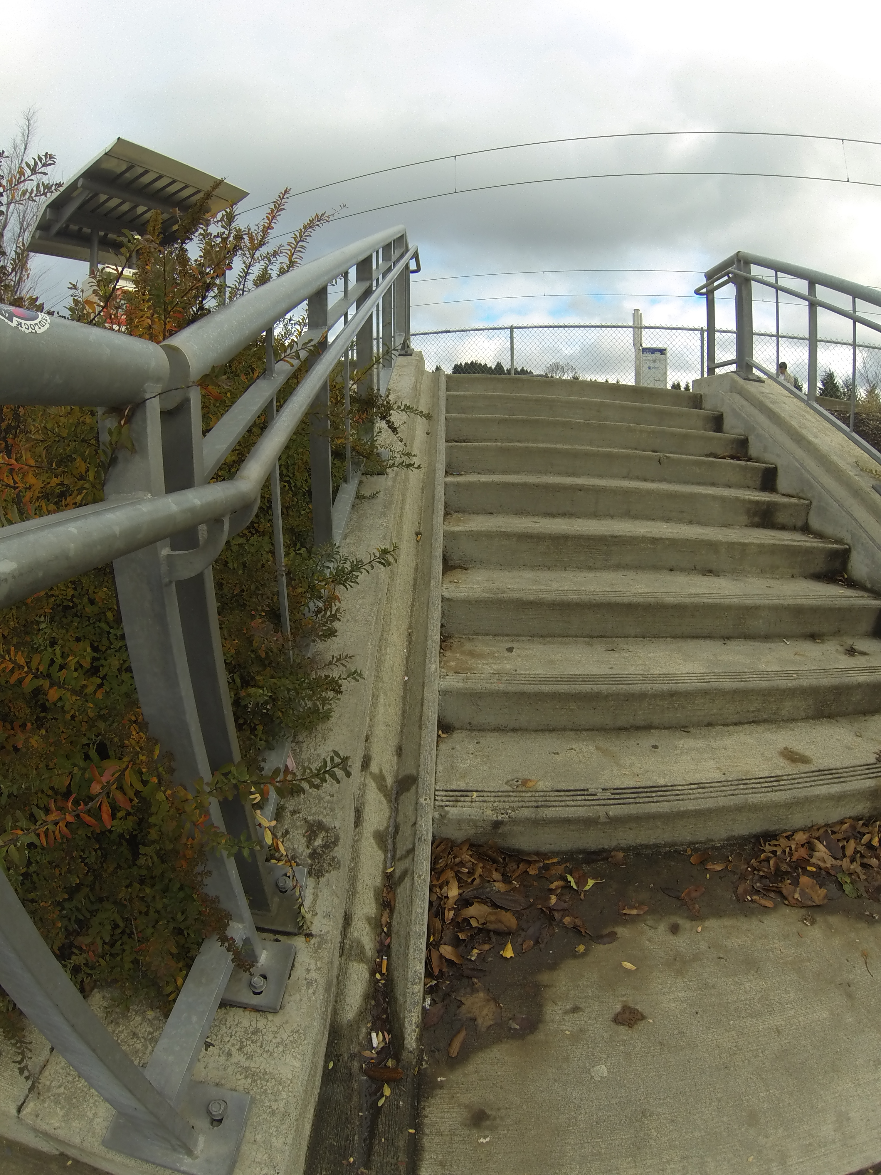 A V-shaped bicycle stairway beside a short staircase from a bicycle path up to the SE Powell Max station in Portland, Oregon